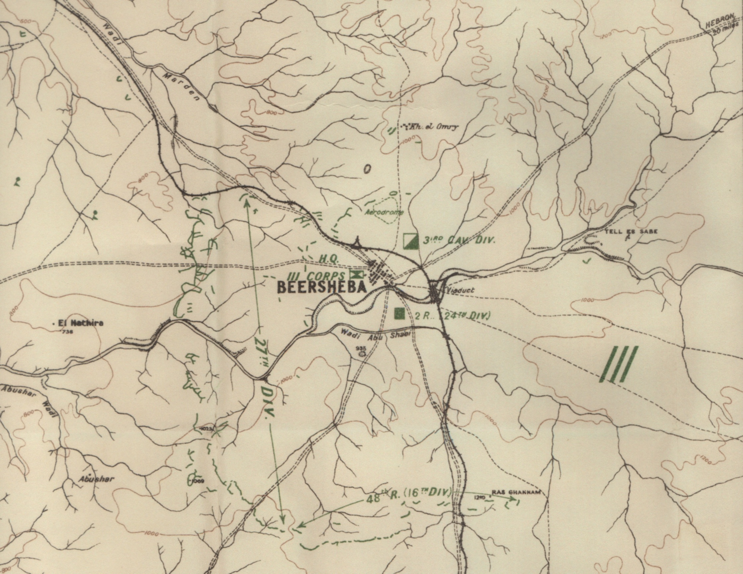 Detail of Falls Map 4 Ottoman defences at Beersheba